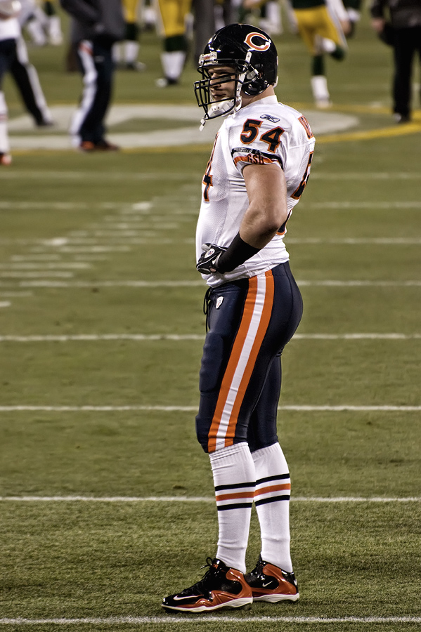 Chicago Bears vs. Green Bay Packers at Lambeau Field on December 25, 2011. Photo by Mike Morbeck.